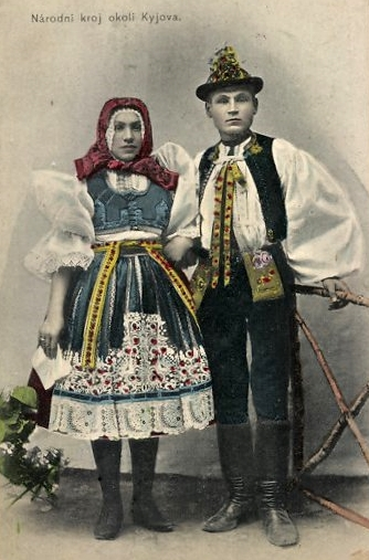 Slovaks from Kyjov. Antique prewar postcard.